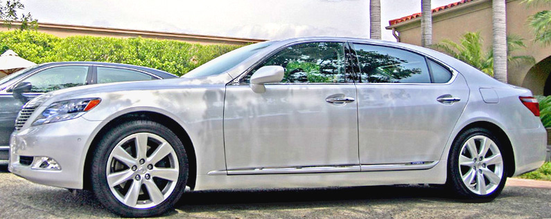 Lexus LS hybrids at Ritz-Carlton, Huntington Hotel, CA